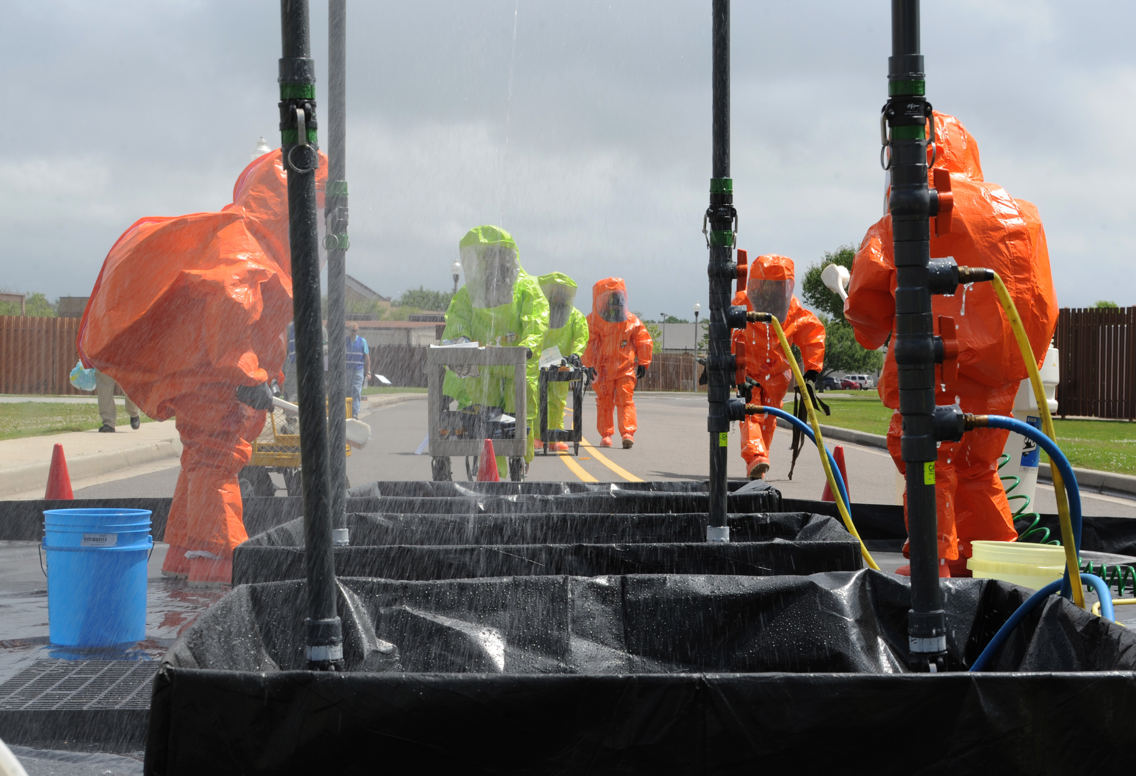 81st Aerospace Medicine Squadron bioenvironmental engineering technicians and 81st Infrastructure Division firefighters approach the decontamination site during a Chemical, Biological, Radiological, Nuclear and Explosive exercise scenario, April 21, 2016, Keesler Air Force Base, Miss. The Force Protection Condition exercise scenario simulated an intruder entering the hazardous waste 90-day accumulation site, where an explosion occurred causing a mass casualty event. The exercise tested the base’s capability to react to and recover from a mass casualty event. (U.S. Air Force photo by Kemberly Groue) Unit: 81st Training Wing / Public Affairs DVIDS Tags: Chemical; Biological; Radiological; Keesler Air Force Base; Firefighters; 81st Training Wing; AETC; Wing Inspection Team; 81st Infrastructure Division; Nuclear and Explosive exercise